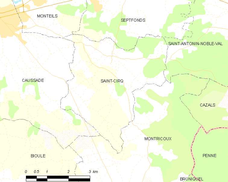 Map of French municipality Saint-Cirq